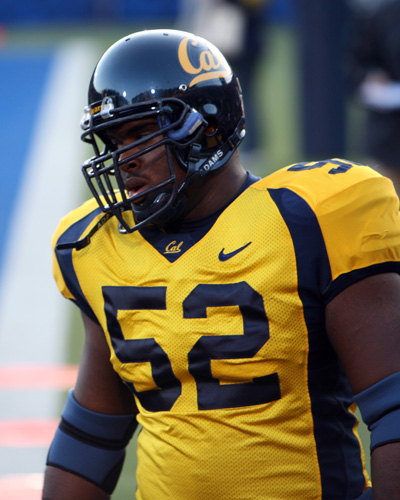 Brandon Mebane former California Golden Bear Defensive Lineman. Drafted in the 2007 NFL Draft by the Seattle Seahawks. This photopgrah was taken in 2006 against UCLA. I own the site, I own the image, and I took the photograph. I release the use of the image under the GFDL. Cgb78 talk 13:53, 30 September 2007